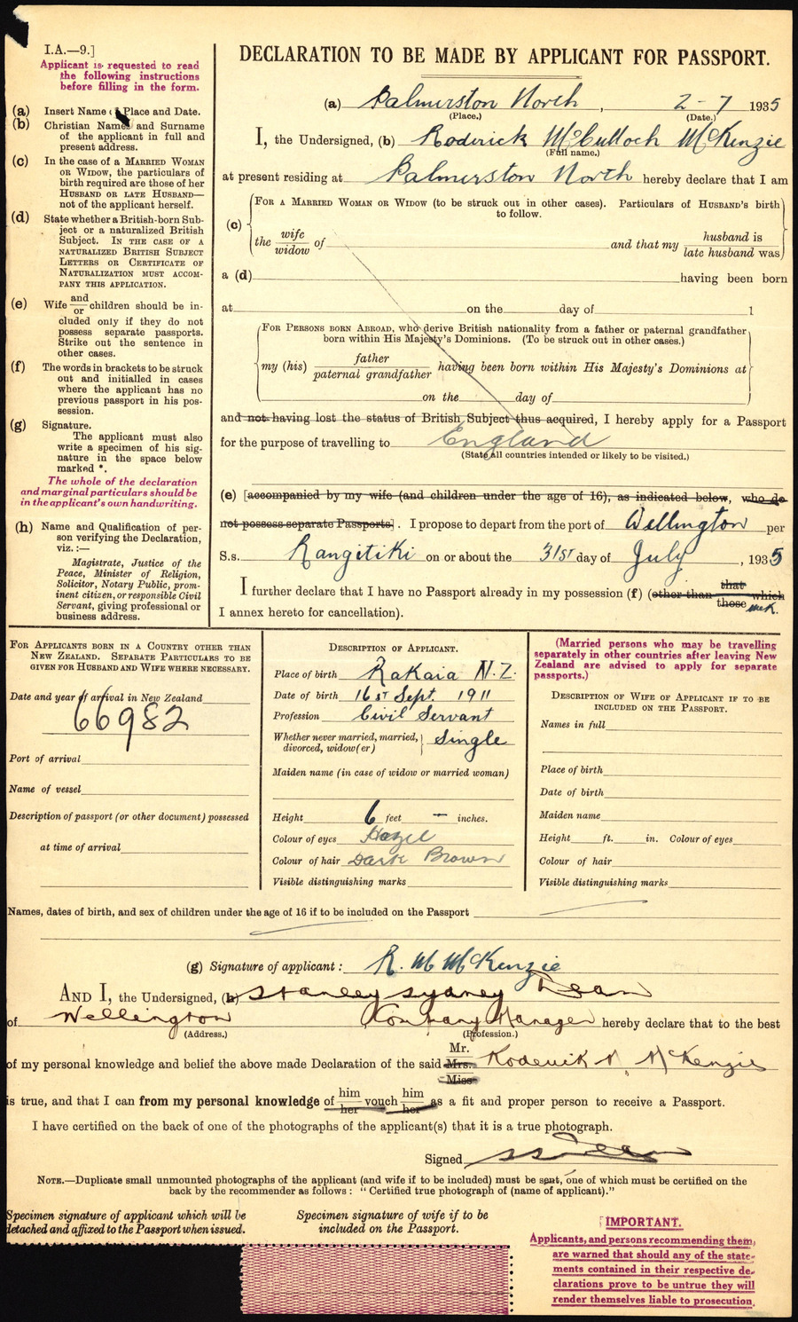 Archives New Zealand Reference: ACGO 8333 IA1 1350 / 15/11/59182